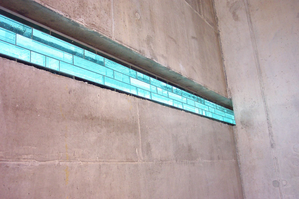 Internal wall of the Wales Millennium Centre, Cardiff, Wales